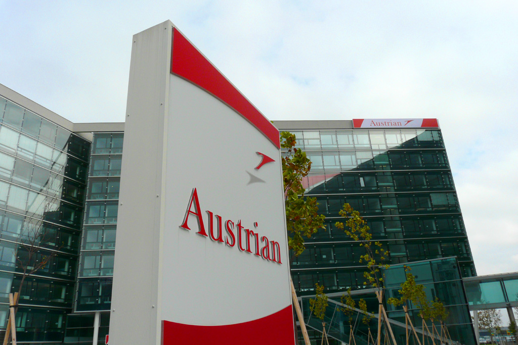 Headquarters of Austrian Airlines on the grounds of Vienna International Airport